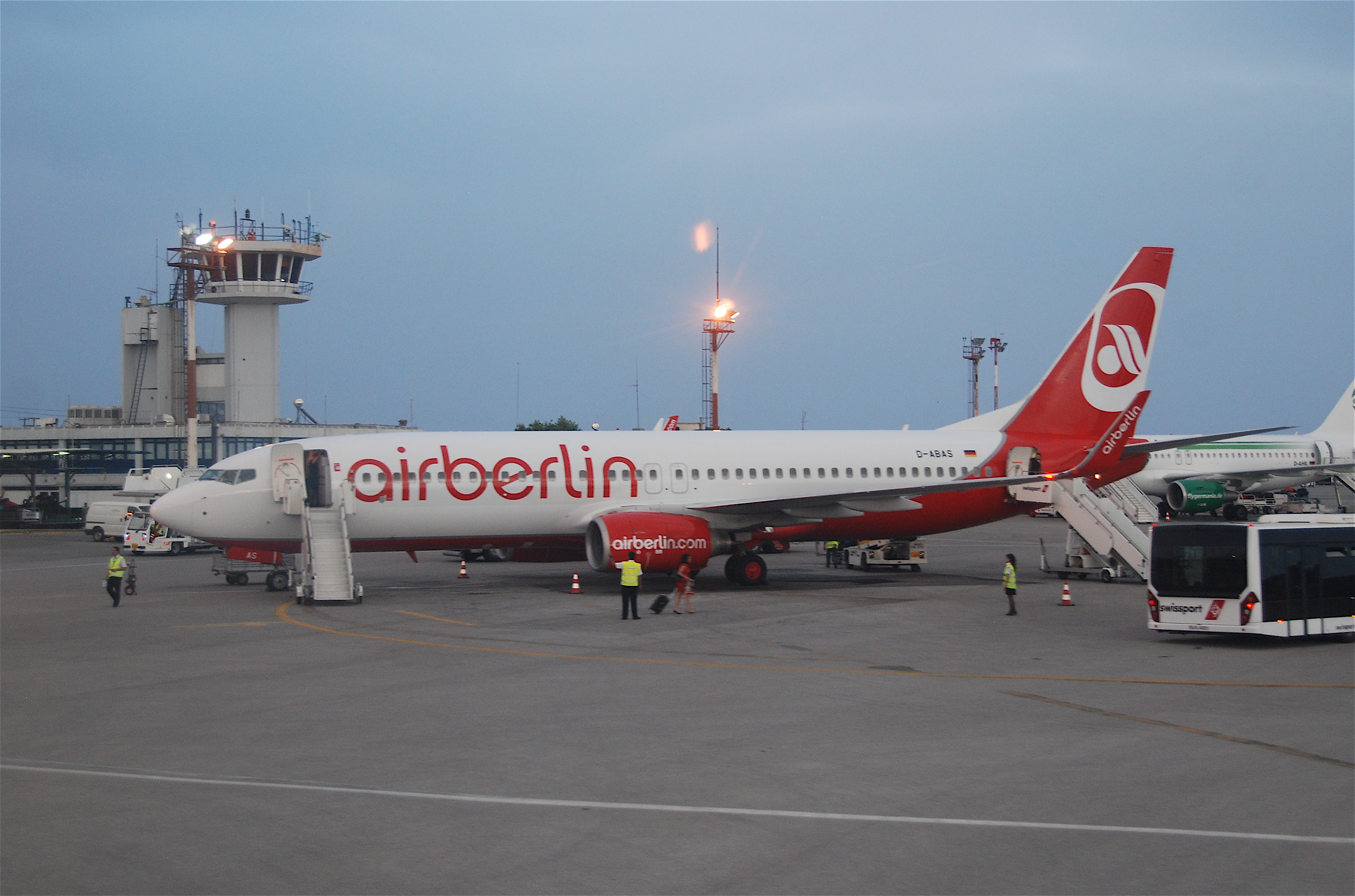 This Boeing 737-86J took its first flight on January 27, 1999...(c/n 28073/ 200)